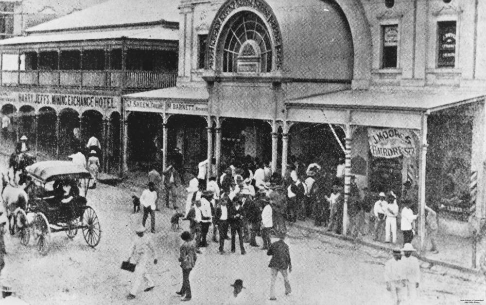 Charters Towers Stock Exchange, 1891 A scene in Mosman Street outside the Stock Exchange during a brief speculation boom in October 1891. [Description supplied with photograph] Other buildings visible include Harry Jeff's Mining Exchange Hotel, J. Sheen - taylor, and J. Moore's hairdressing establishment. A horse and carriage appear in the street. The stock exchange building began life in 1888 as the Royal Arcade. It was converted into a stock exchange in 1890. [Information taken from: Don Roderick, Charters Towers and its Stock Exchange, 1977].